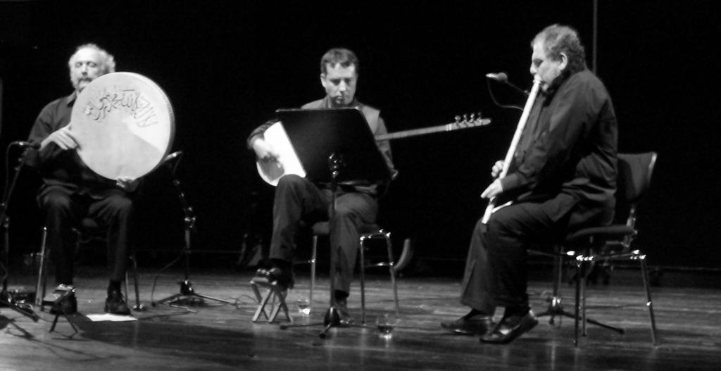 Kudsi Erguner Ensemble: Pierre Rigopoulos (bendir), Murat Aydemir (tanbur), Kudsi Erguner (ney)